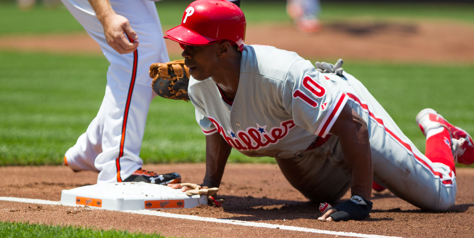 Juan Pierre diving back into first base on a pickoff attempt